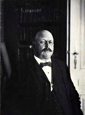 Peter Adler Alberti (1851-1932), Danish politician, Minister of Justice and Minister for Iceland, MP